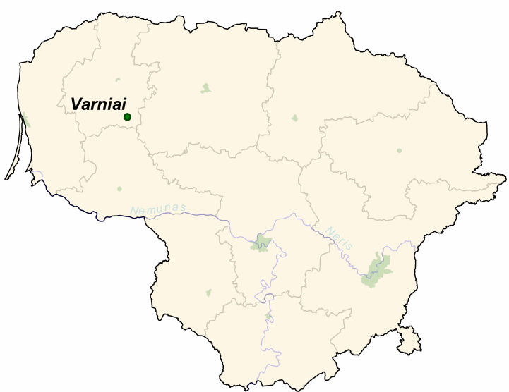 Varniai on the map of Lithuania